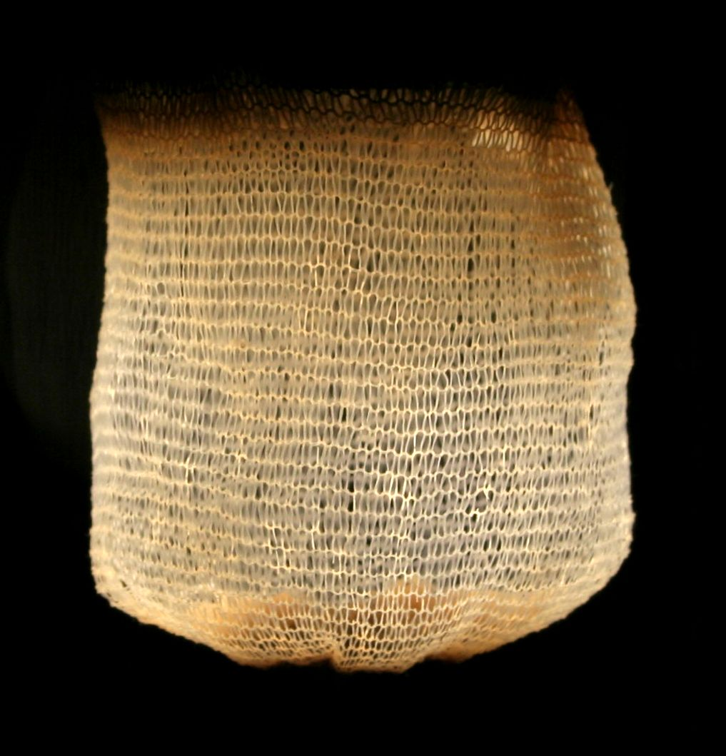 A Coleman white gas lantern mantle burning at its highest setting.